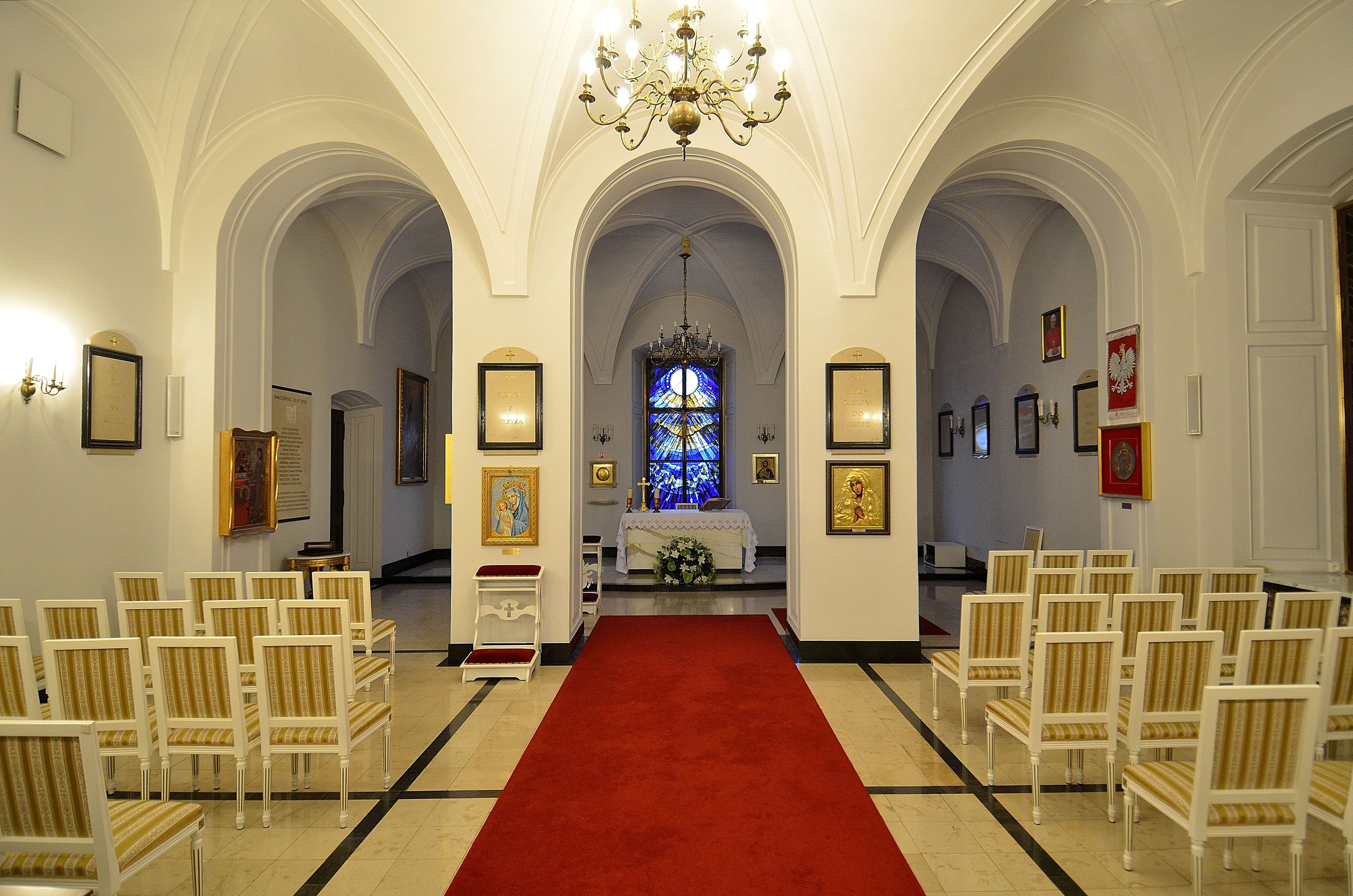 The chapel at the Presidential Palace in Warsaw